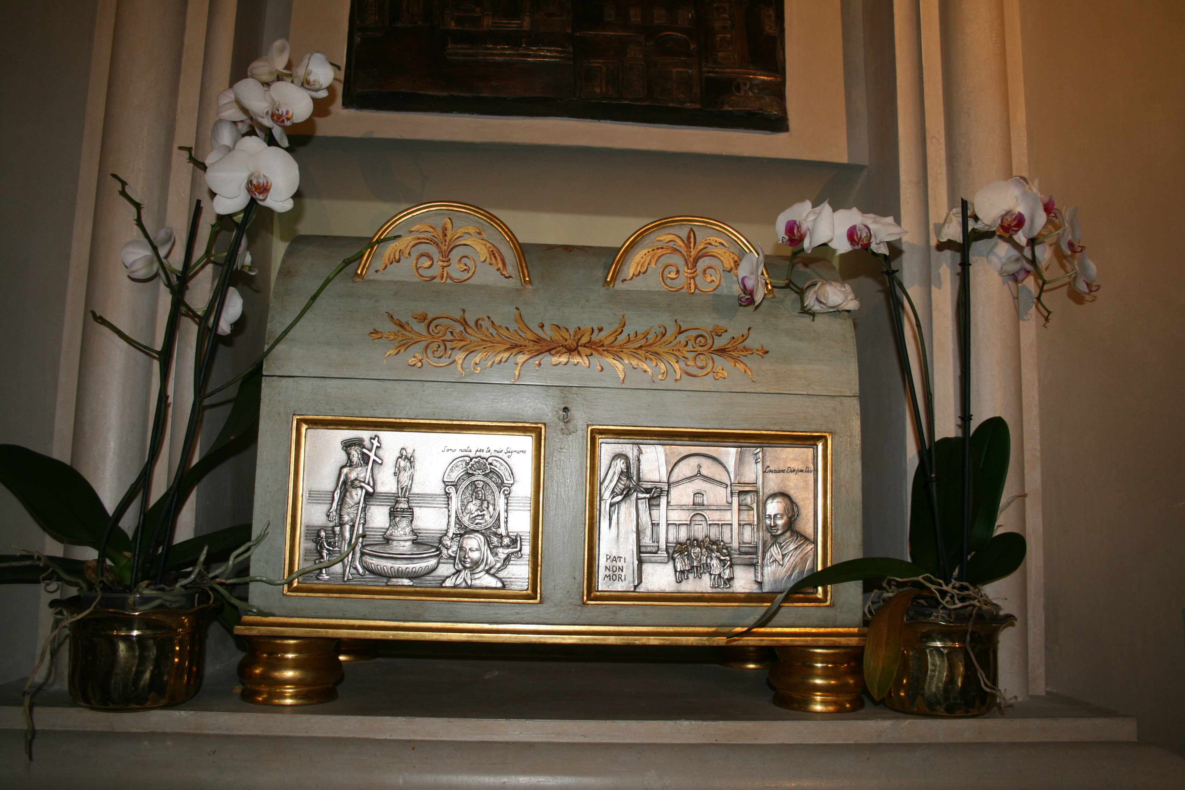 Cinerary urn of Maria Teresa Scrilli, blessed soul of the Catholic Church